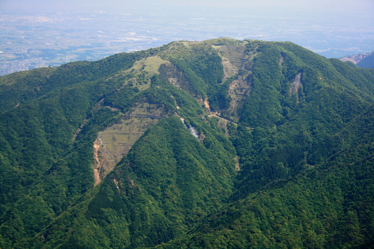 Mount Nyudo seen from Mount Kama in Suzuka Mountains, Japan.